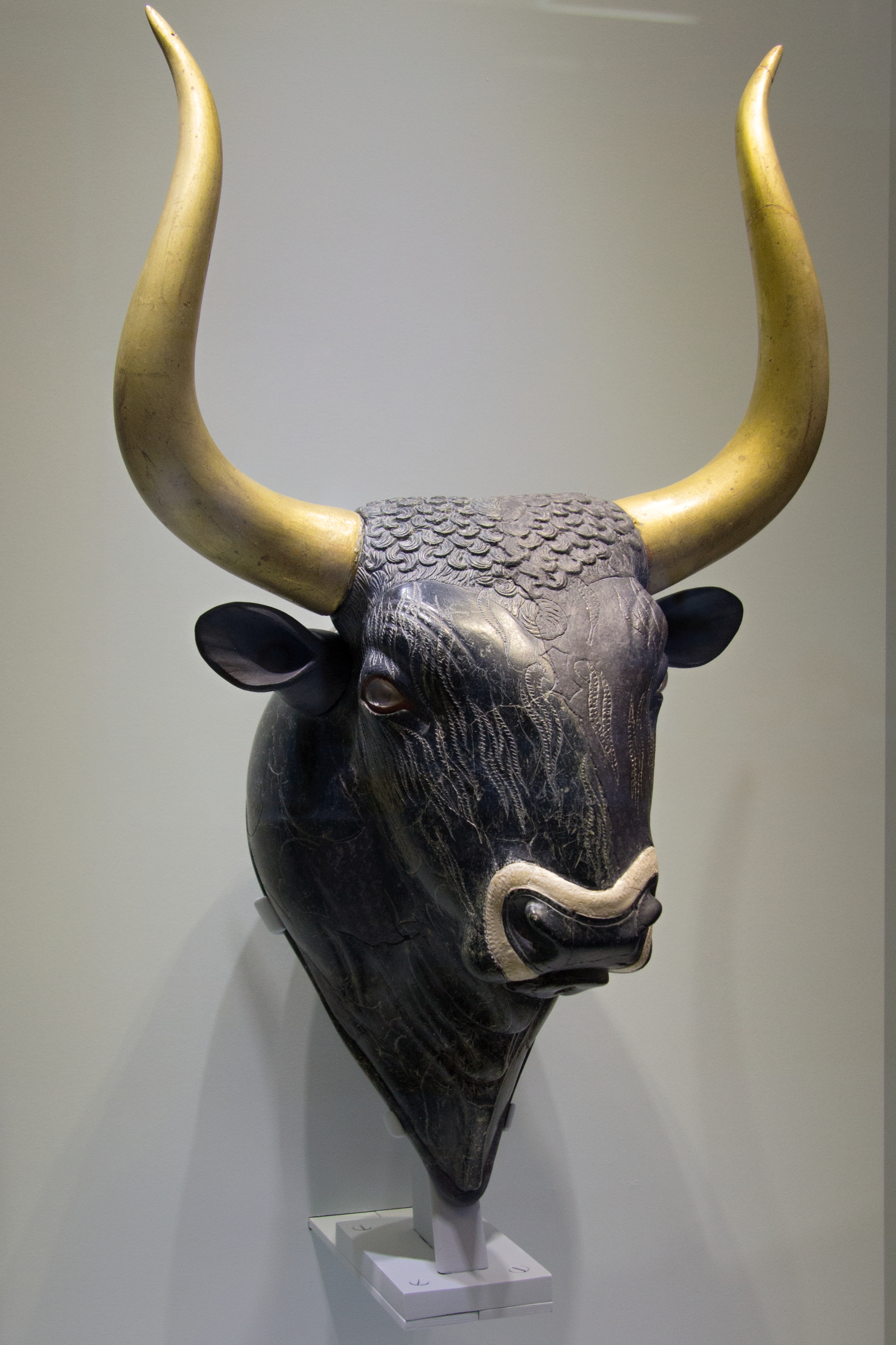 Stone bulls-head rhyton, left side of head and horns restored. This vessel would have been used for libations, as indicated by the hole in the neck for filling and the corresponding hole in the snout for pouring out the liquid. Knossos, Little Palace, 1600-1450 BC. Archaeological Museum of Heraklion.